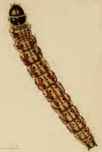 Stainton’s Natural History of the Tineina (1855–1873): Bryotropha domestica